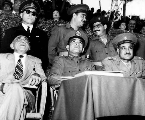 Leaders of the 1952 Egyptian revolution. Seated, left to right: Constitutional lawyer and later interior minister Sulayman al-Hafez, President and RCC Chairman Muhammad Naguib and Vice Chairman Gamal Abdel Nasser attending an event in Cairo.